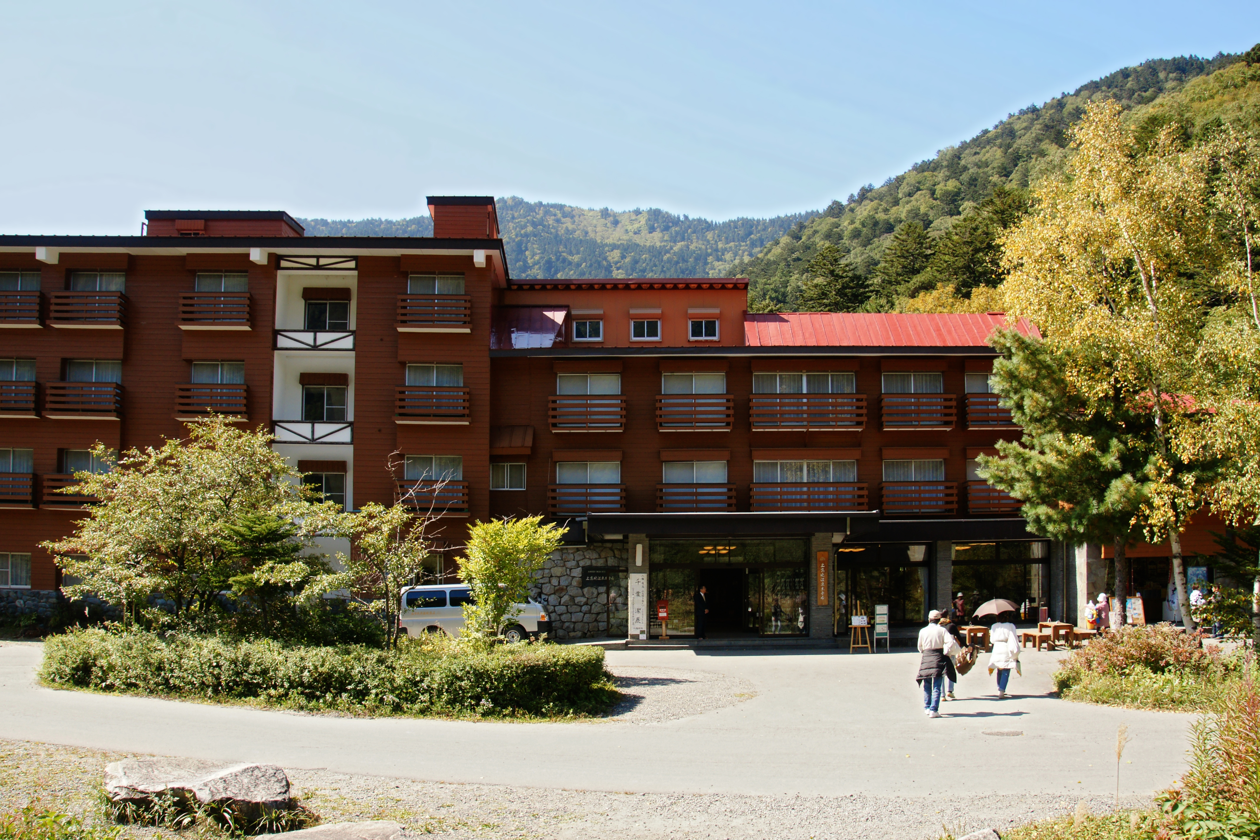 Kamikochi Onsen Hotel in Kamikochi, Matsumoto, Nagano prefecture, Japan